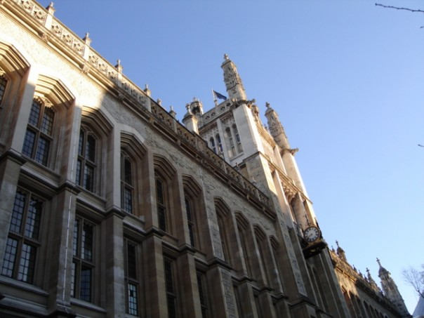 The Maughan Library, King's College London on Chancery Lane